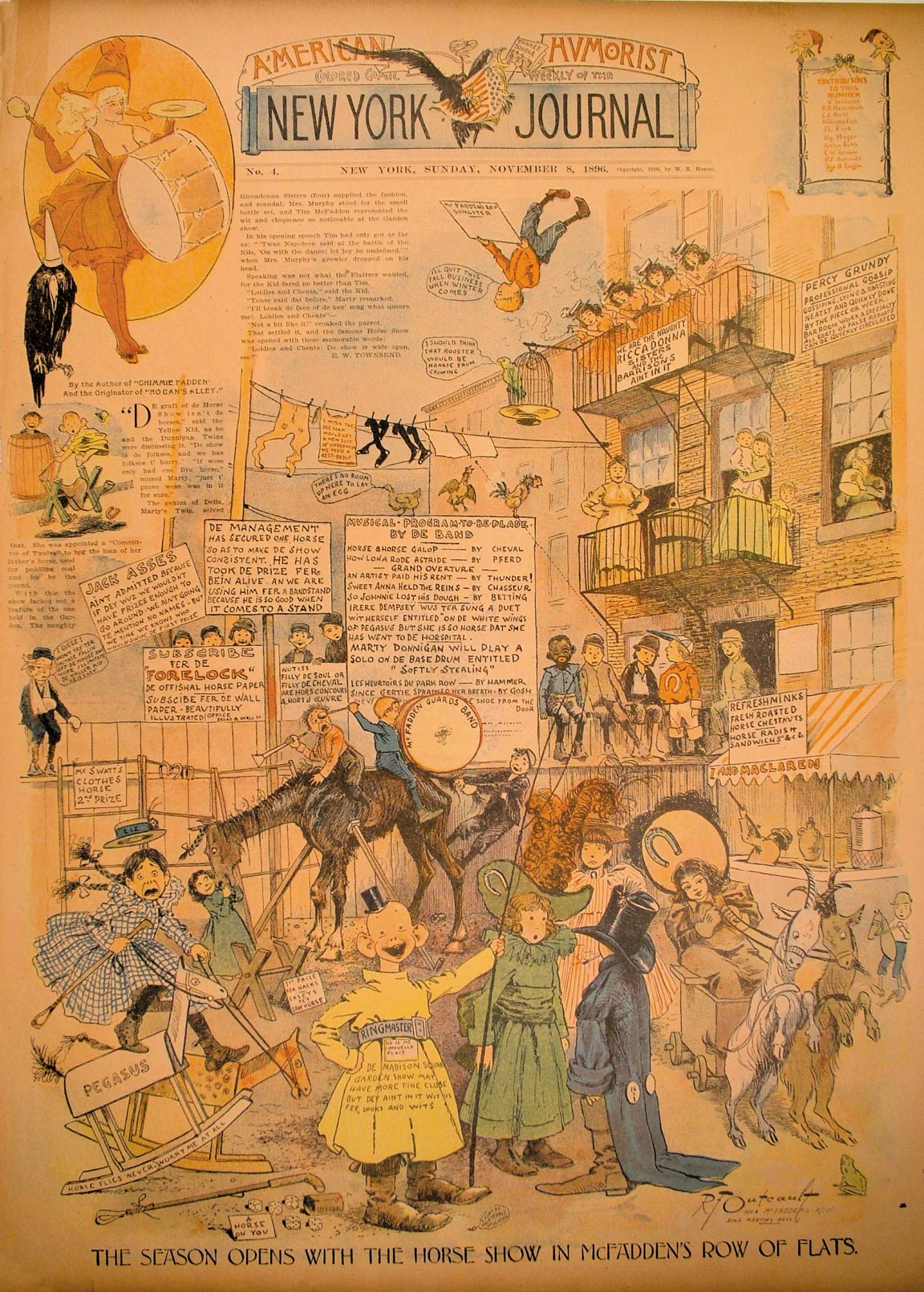 "Yellow Kid" cartoon, Sunday, November 8, 1896, by Richard Felton Outcault. Note reference to the Barrison Sisters.